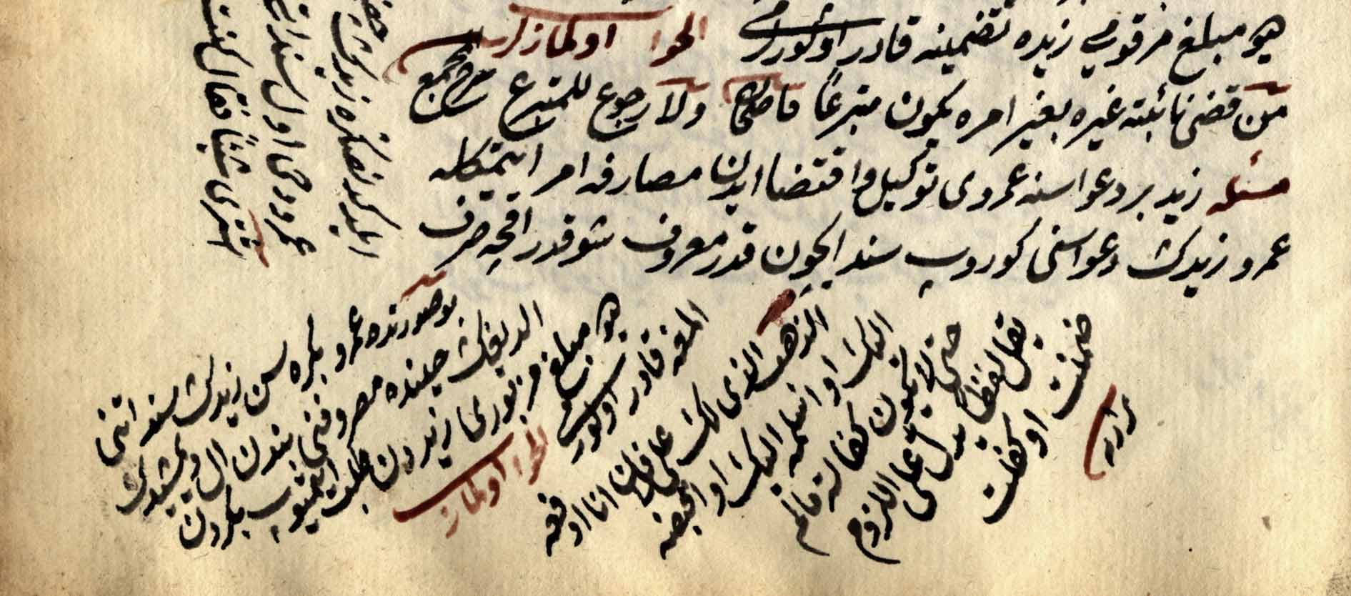 Other Collections second half of the XVI century – 1980’s, Book of fetvas which belonged to the sheriat judge, describing the legal solutions for daily problems that have happened in the Town.